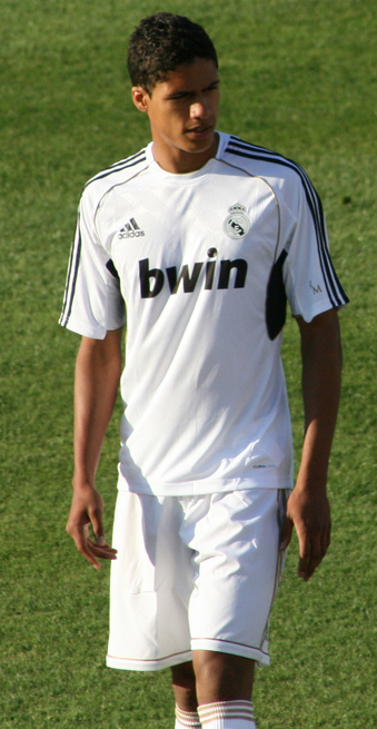 Raphaël Varane on Real Madrid training, in Los Angeles, California.